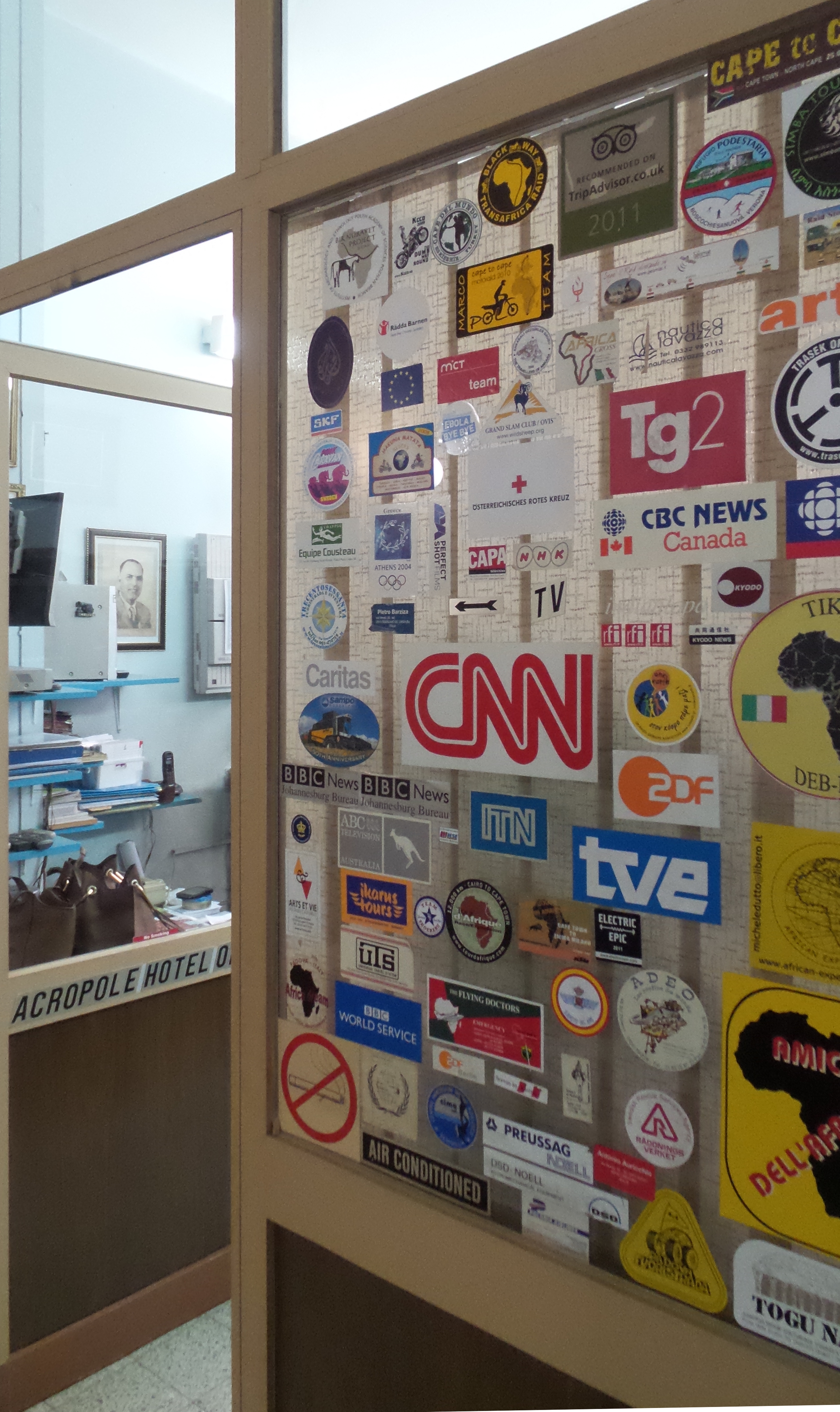 The management office of the Acropole Hotel in Khartoum, Sudan